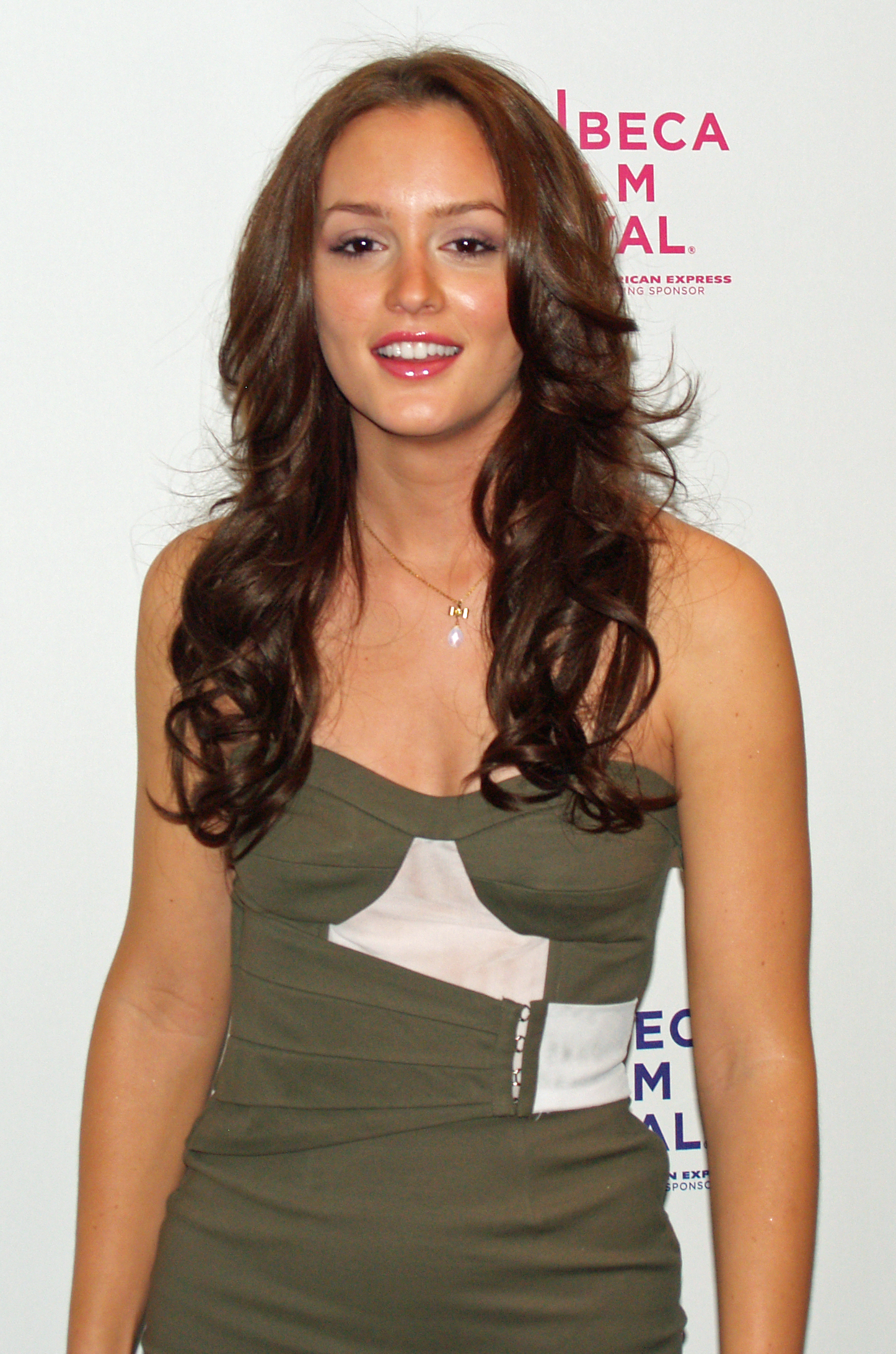 Leighton Meester at the premiere of Killer Movie at the 2008 Tribeca Film Festival. Read a blog post about this photo and event from the photographer.